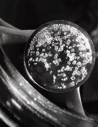 from en On Oct. 2, 1962, Argonne announced the creation of xenon tetrafluoride, the first simple compound of xenon, a noble gas widely thought to be chemically inert. The creation opened a new era for the study of chemical bonds.